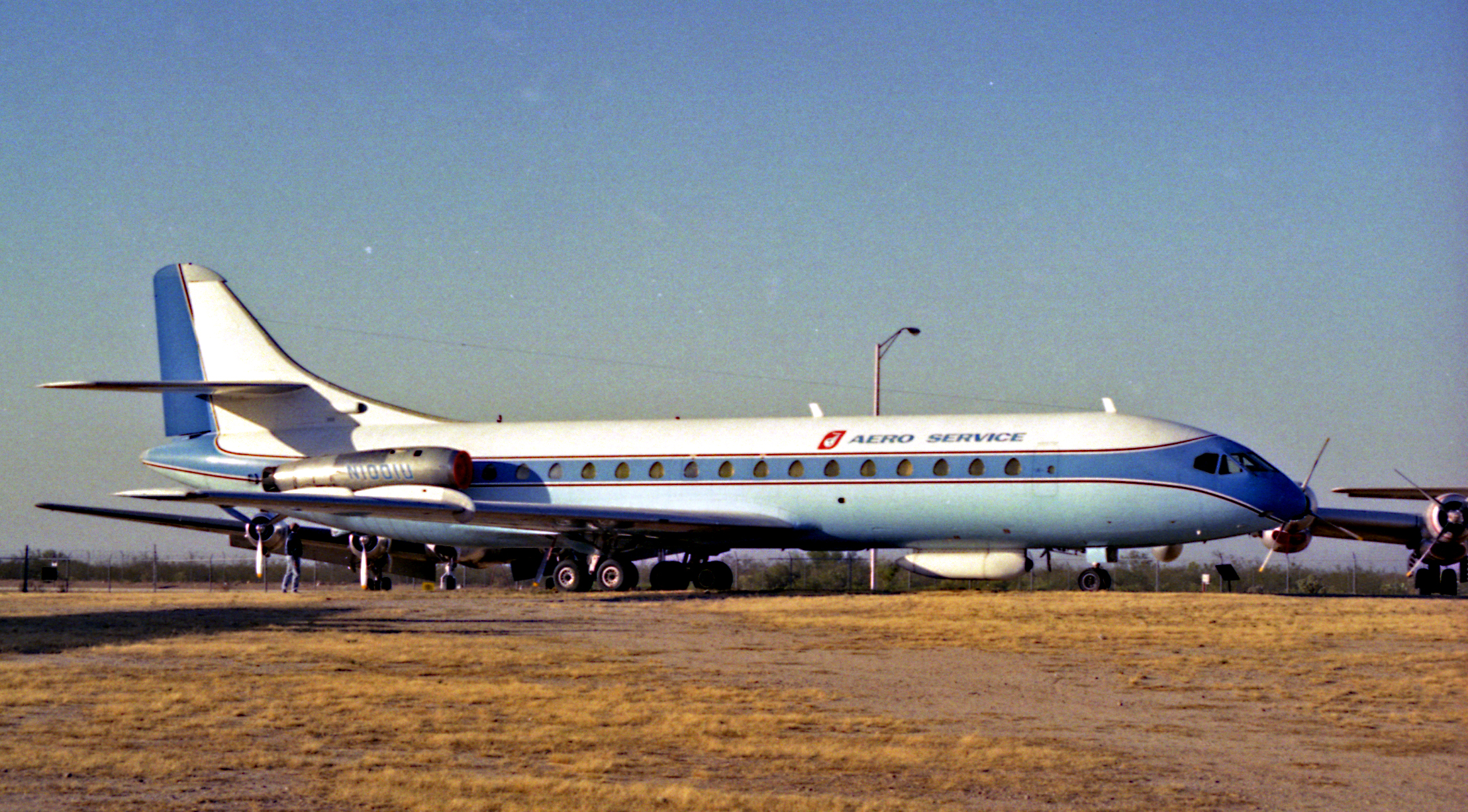 Sud Aviation Caravelle at Pima Air & Space Museum